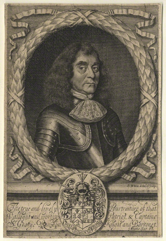 Portrait of Sir George Rawdon, 1st Baronet (1604-1684), English army officer and politician.